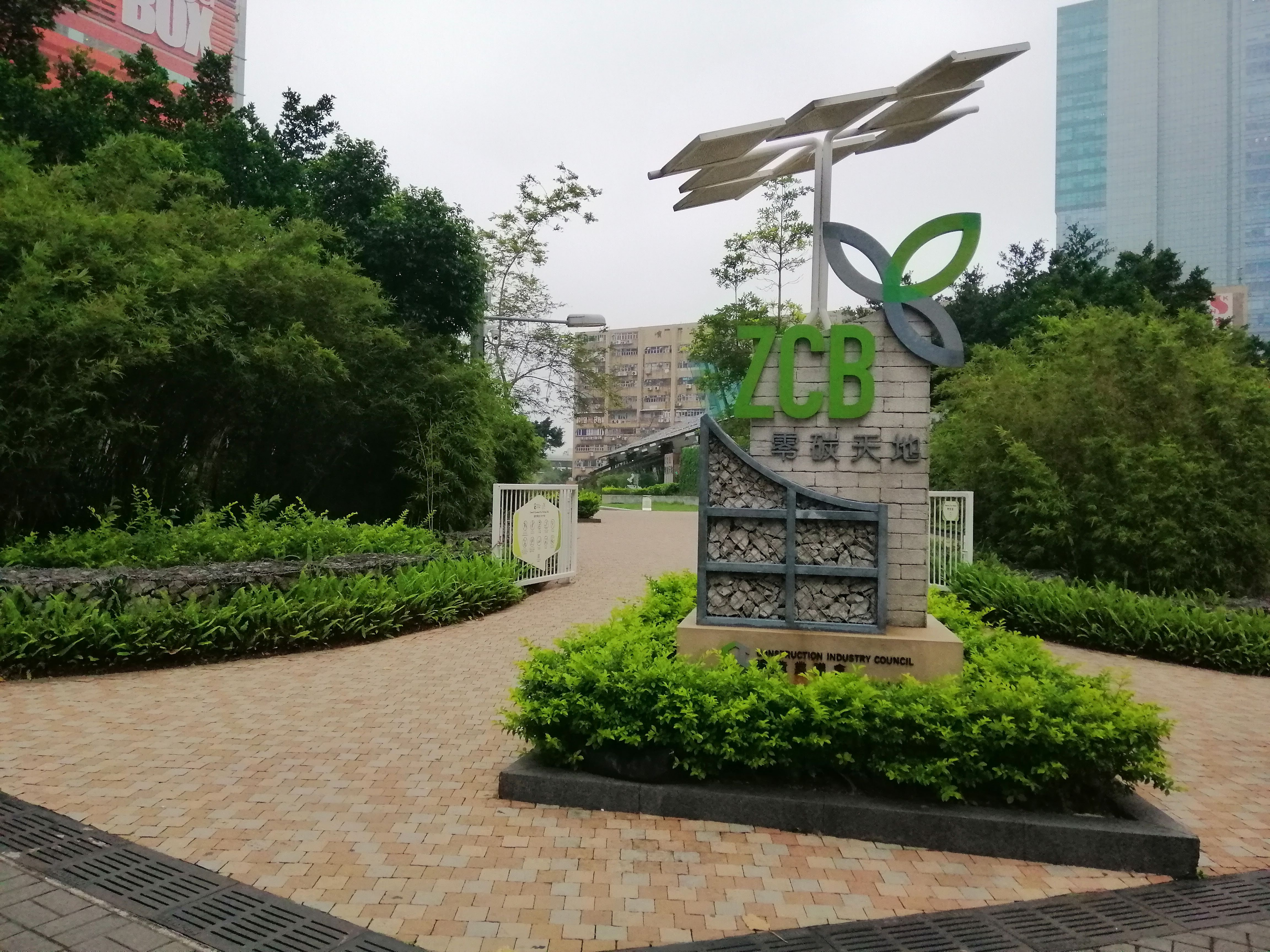 zero carbon 1